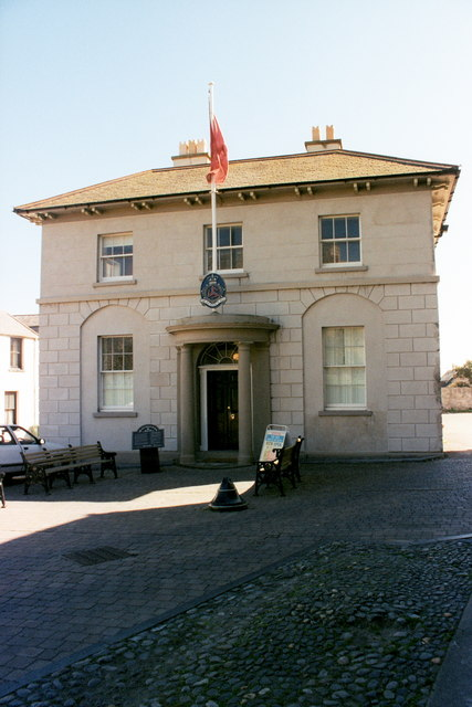 The Old House of Keys